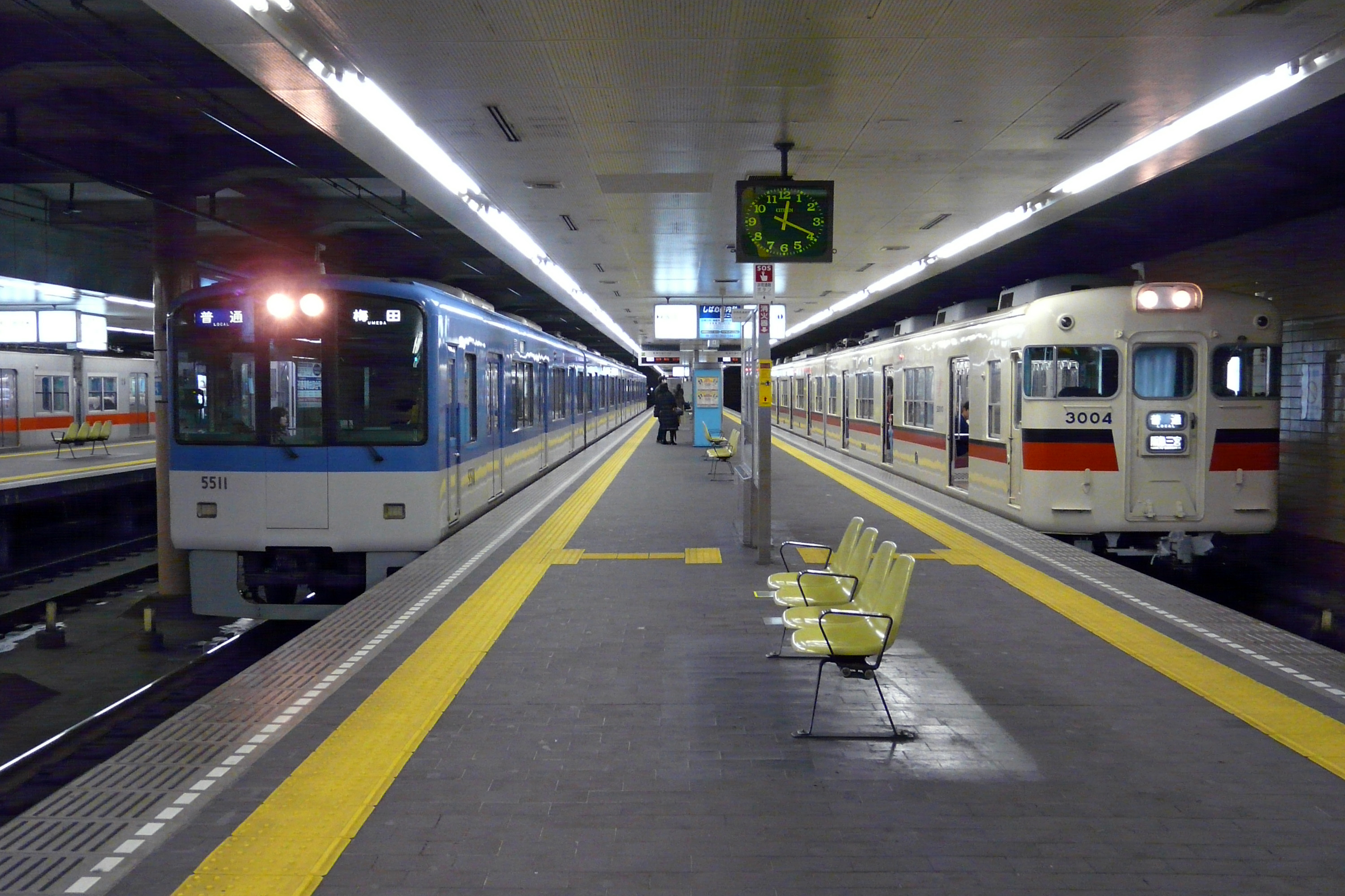 Kosoku-Kobe Station in Kobe, Hyogo prefecture, Japan